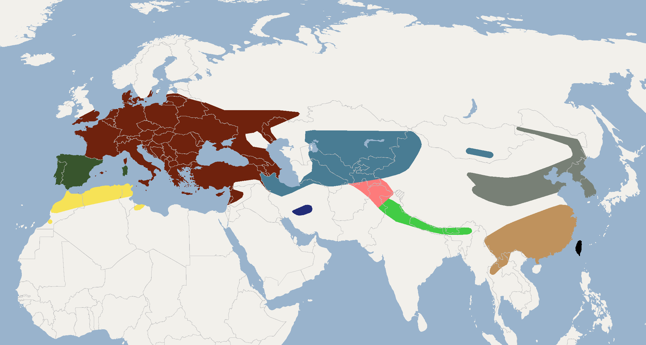 According to Happold & Happold, 2013, Aulagnier & Al., 2011, Smith & Xien, 2008, Menon, 2014, Francis, 2008. subspecies range in different colours.